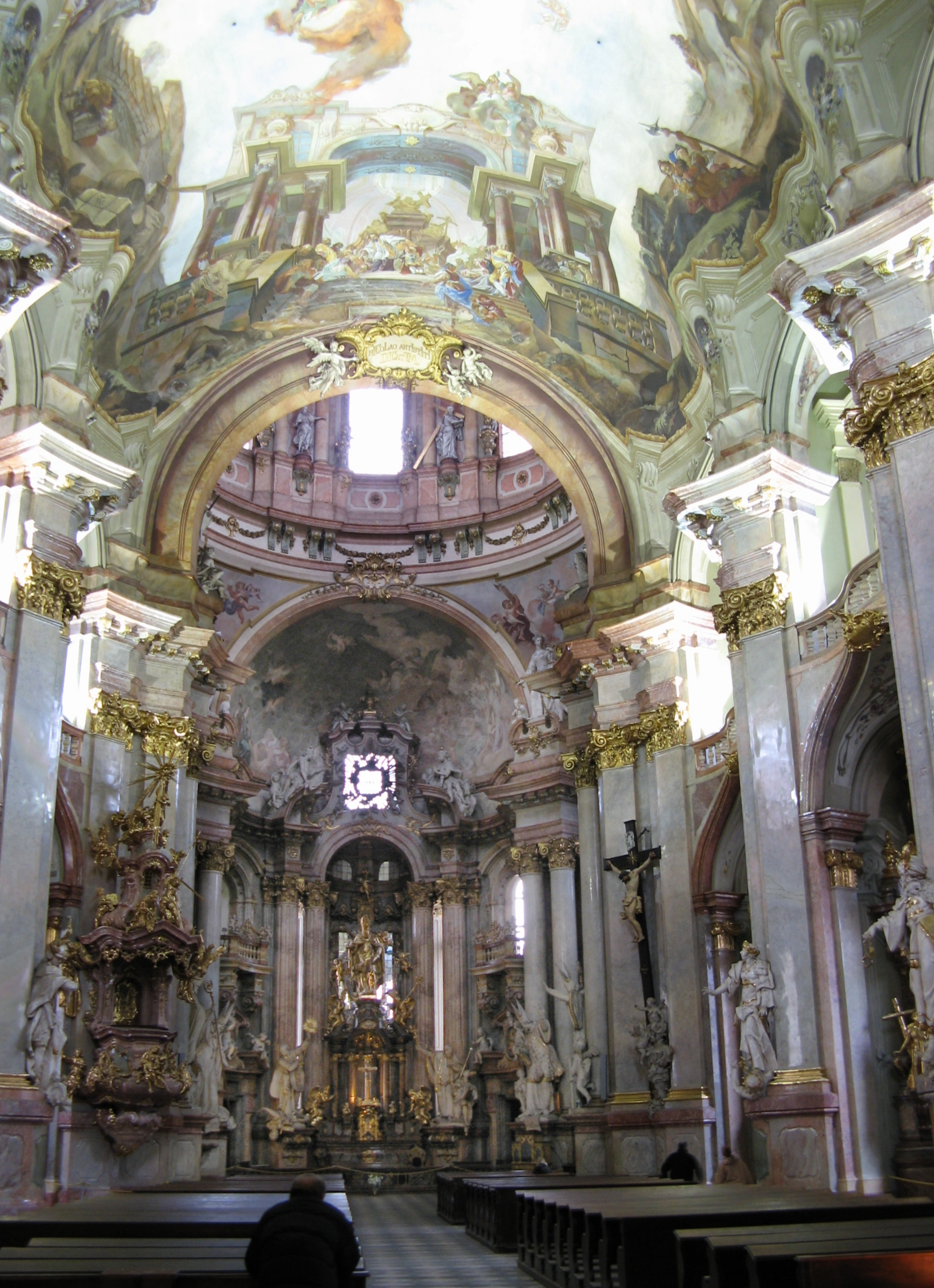 Church of St Nicholas of Lesser Town in Prague, altar as seen from entry.